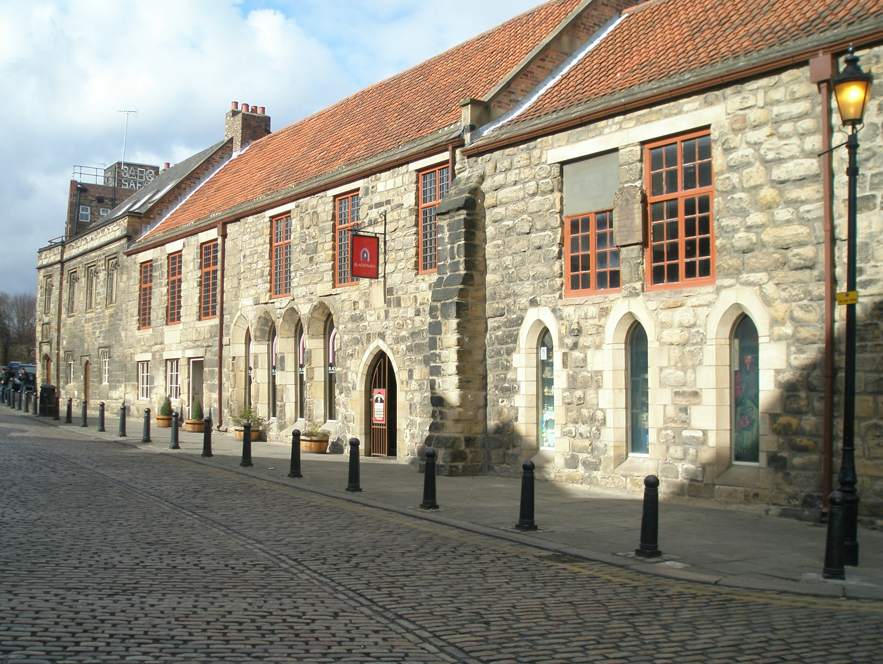 Front view of Blackfriars (former friary) in Newcastle-upon-Tyne